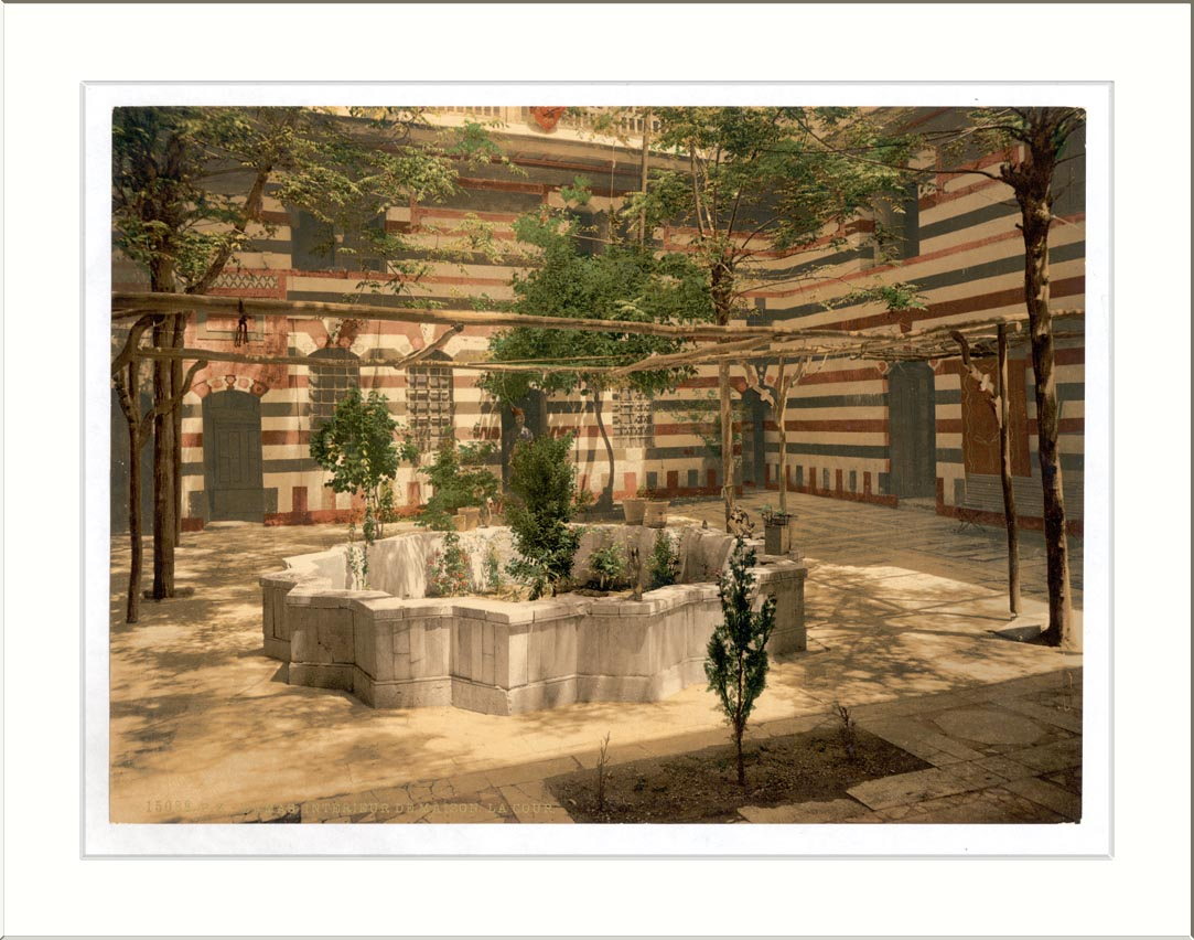 The courtyard and garden of a house in Damascus, Syria. Damascus Holy Land (i.e. Syria)